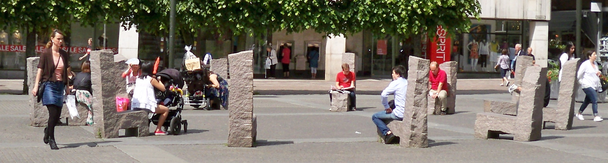 Borås Surround is the title of this circle of twelve stone seats on Stora torget (Big square) in Borås, Sweden. They were installed in 1995 by the American anthropologist and minimalist sculptor Richard Nonas (*1936).